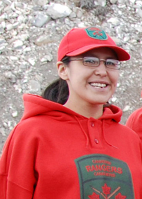 Canadian Ranger